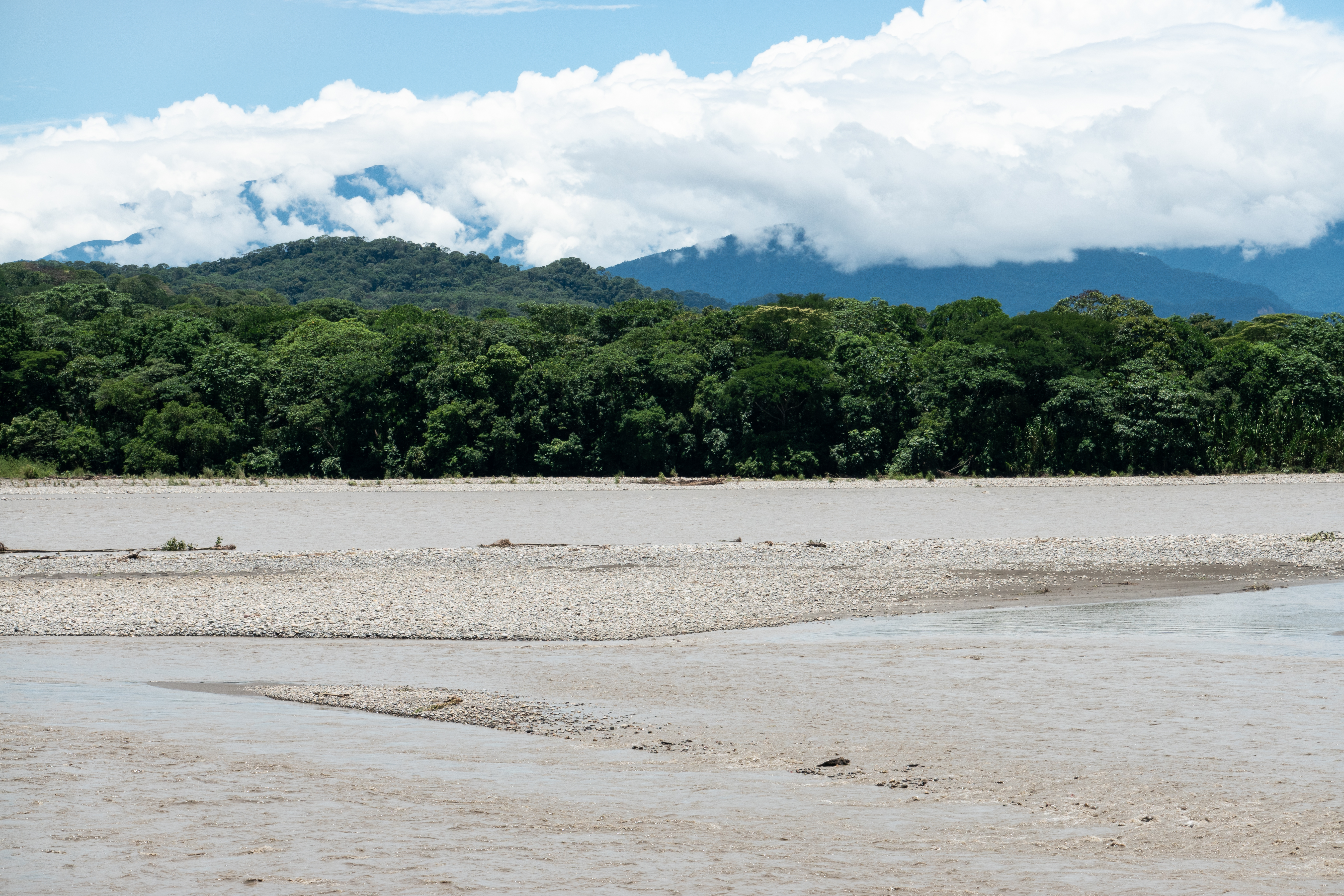 Rio San Matéo and Rio Espíritu Santo Confluence to form Rio Chapare at Villa Tunari